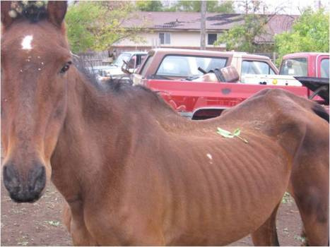 Neglected horse in poor condition. Photo source: Patricia Evans, Utah State University